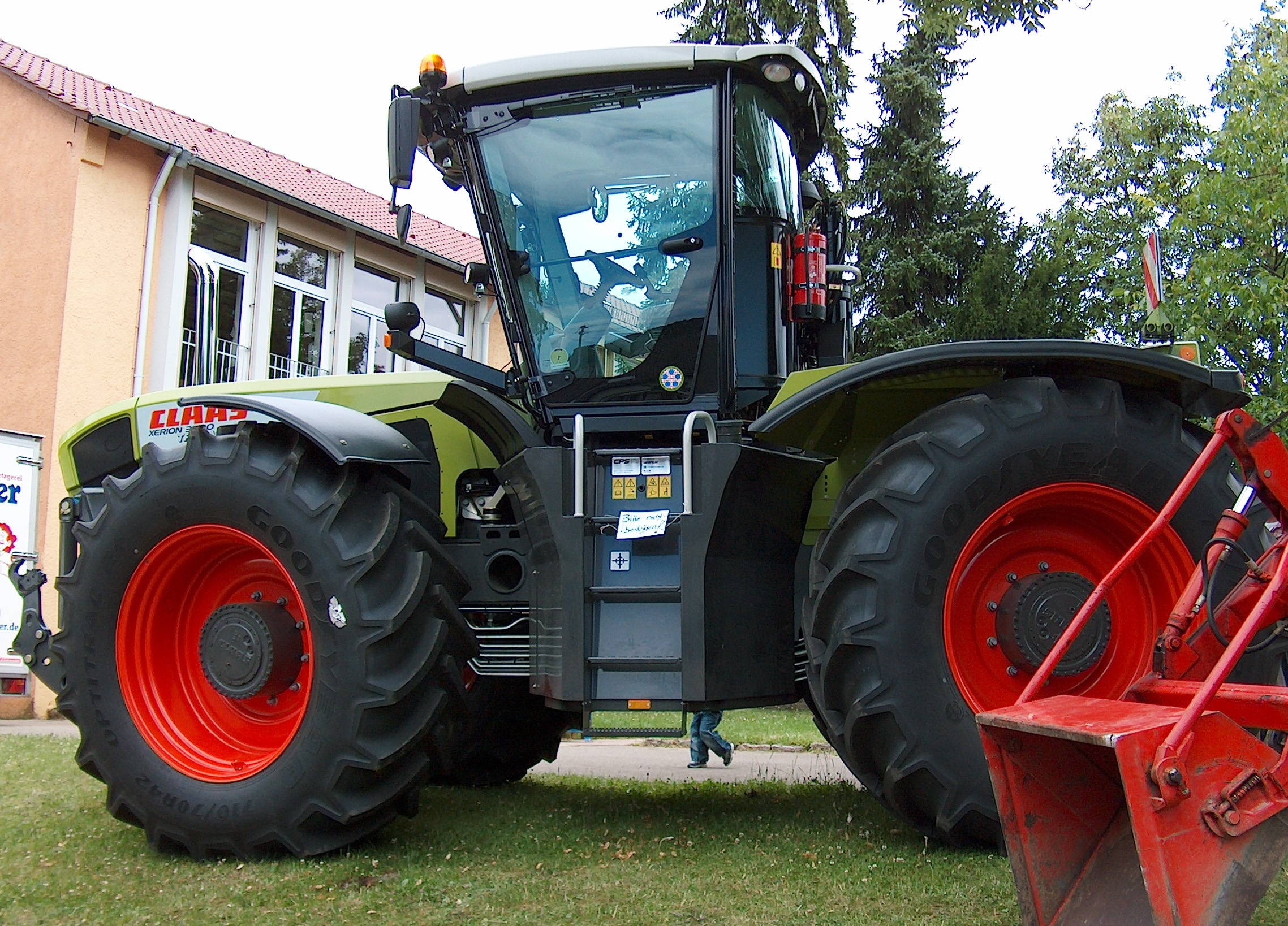 Claas Xerion 3800 Trac VC